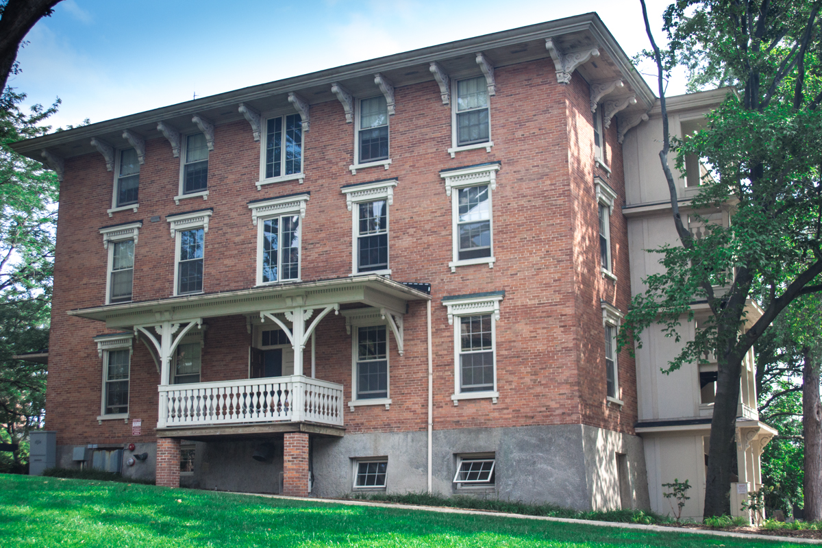 Van Vleck Hall